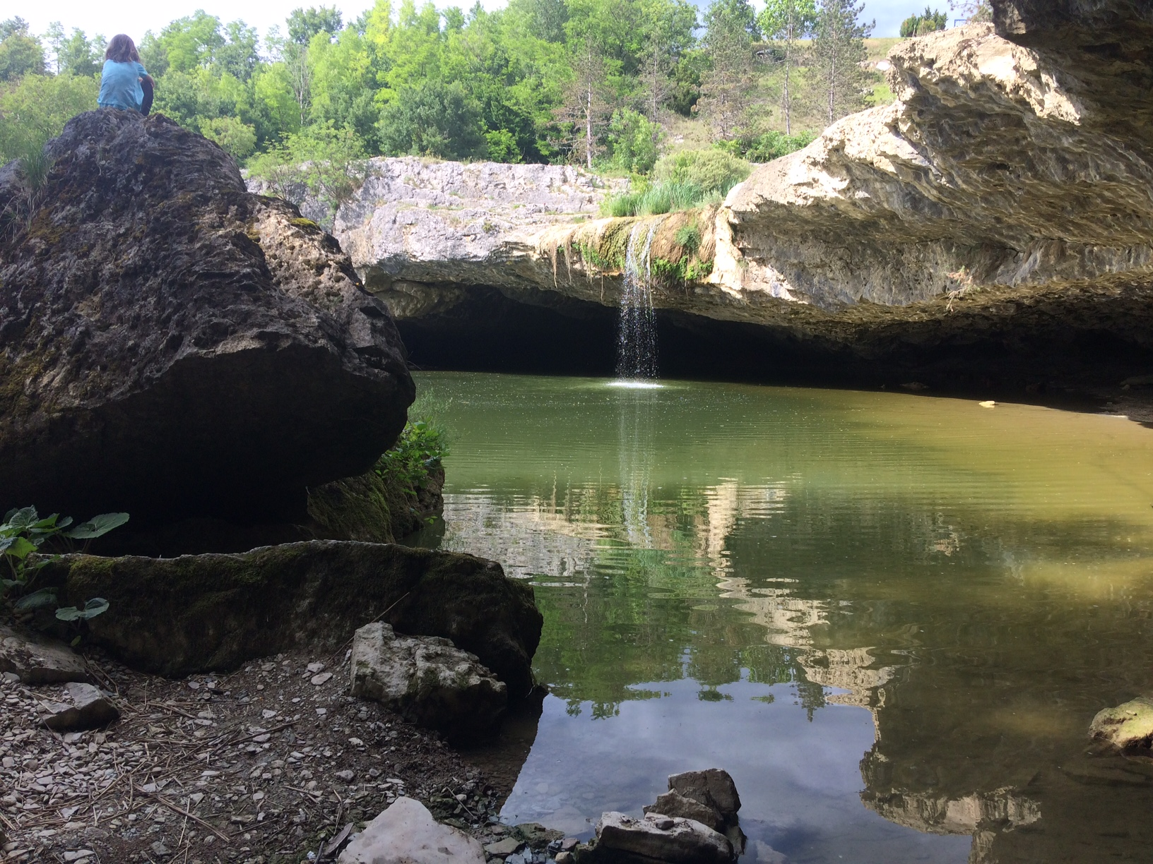 Zarečki krov, Pazin, Croatia